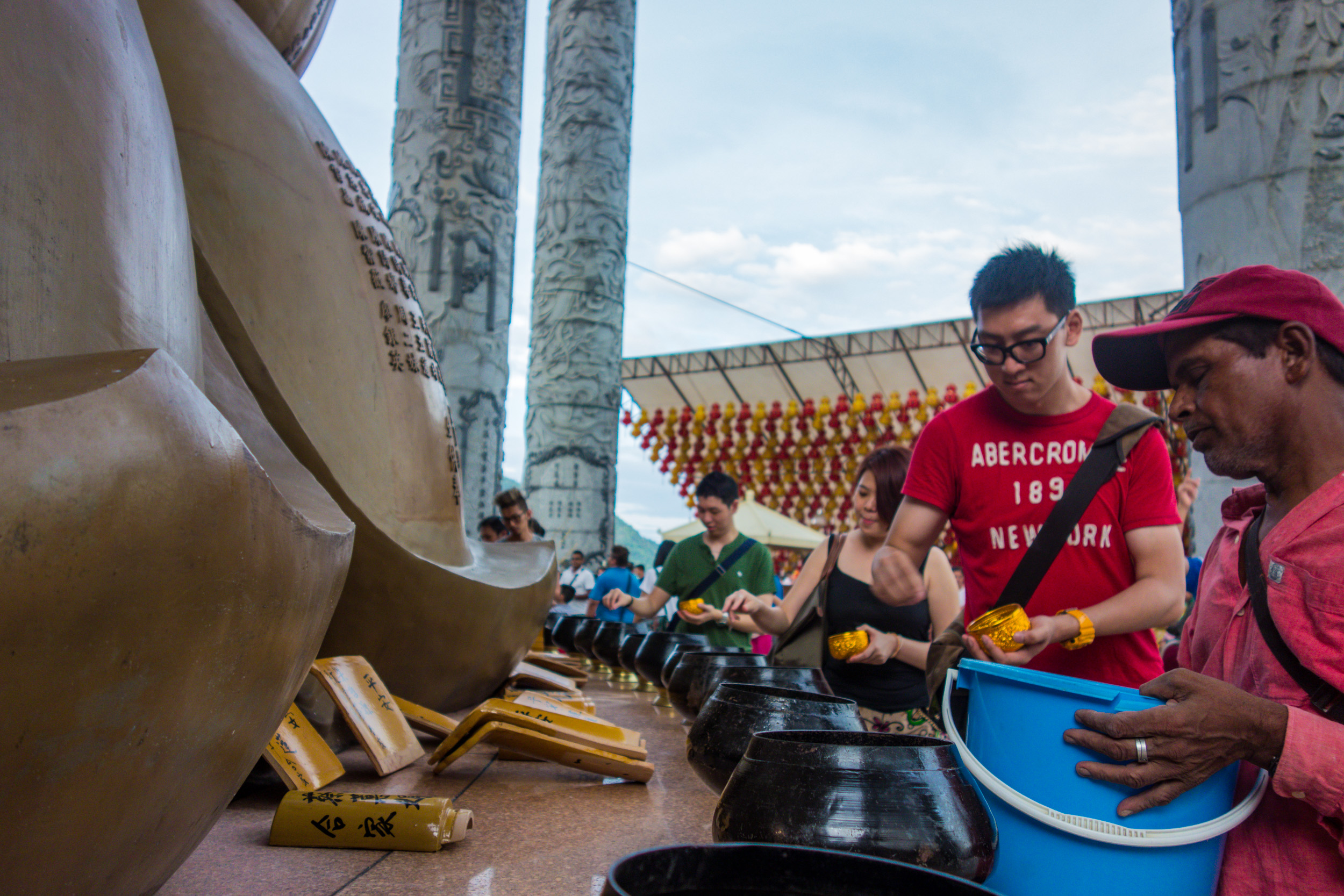 Penang - Part 2 - Temples